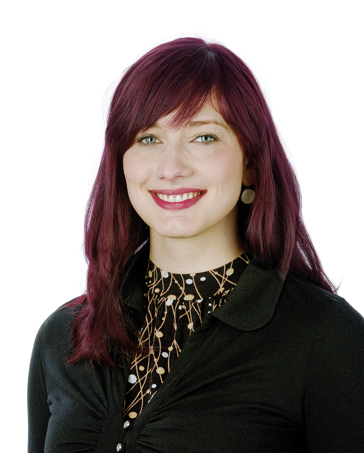 Julia Bonk, German politician ("Die Linke", Saxony)